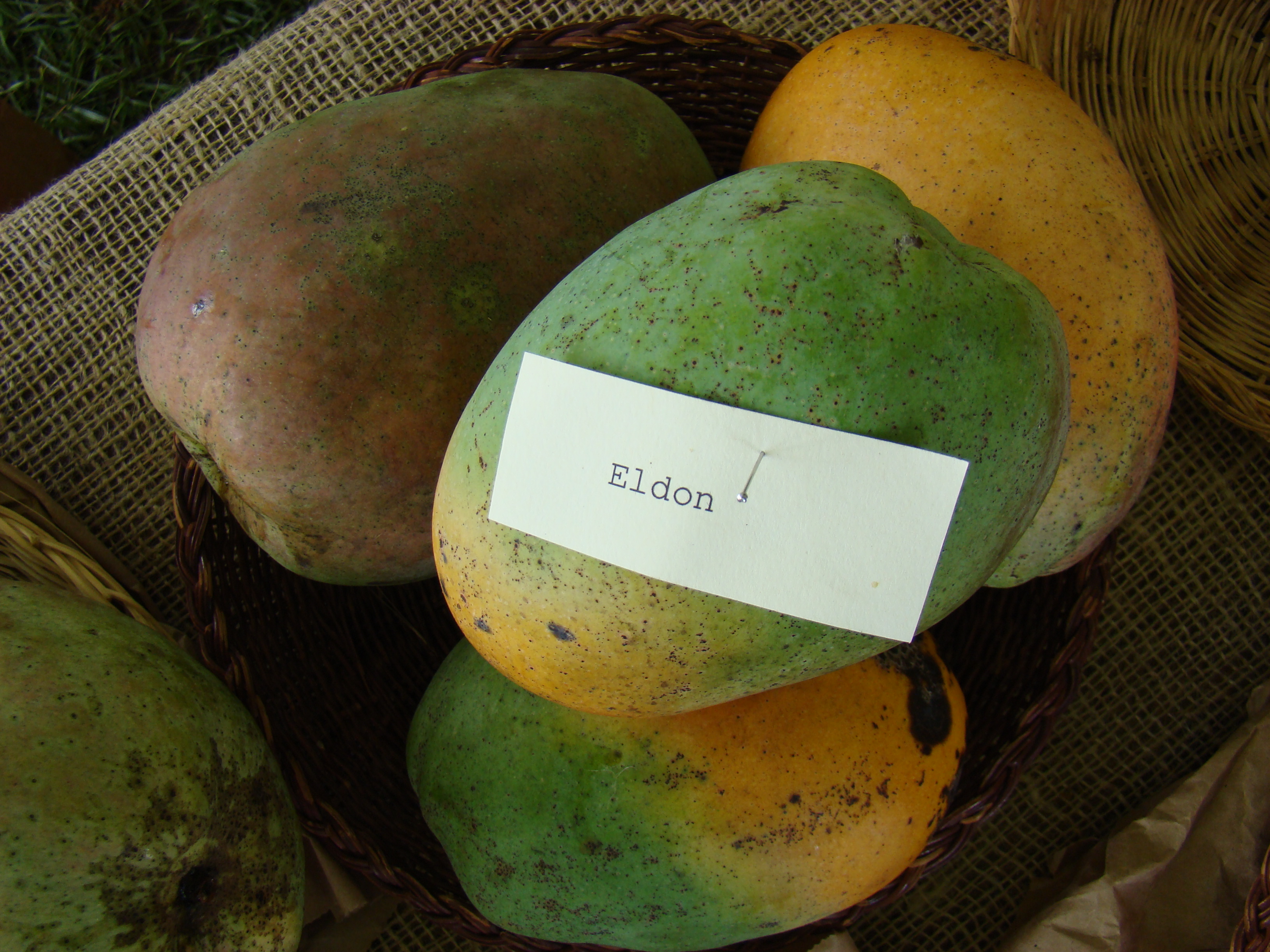 This is a photo of the display of Eldon mango at the Redland Summer Fruit Festival, Fruit & Spice Park, Homestead, Florida.